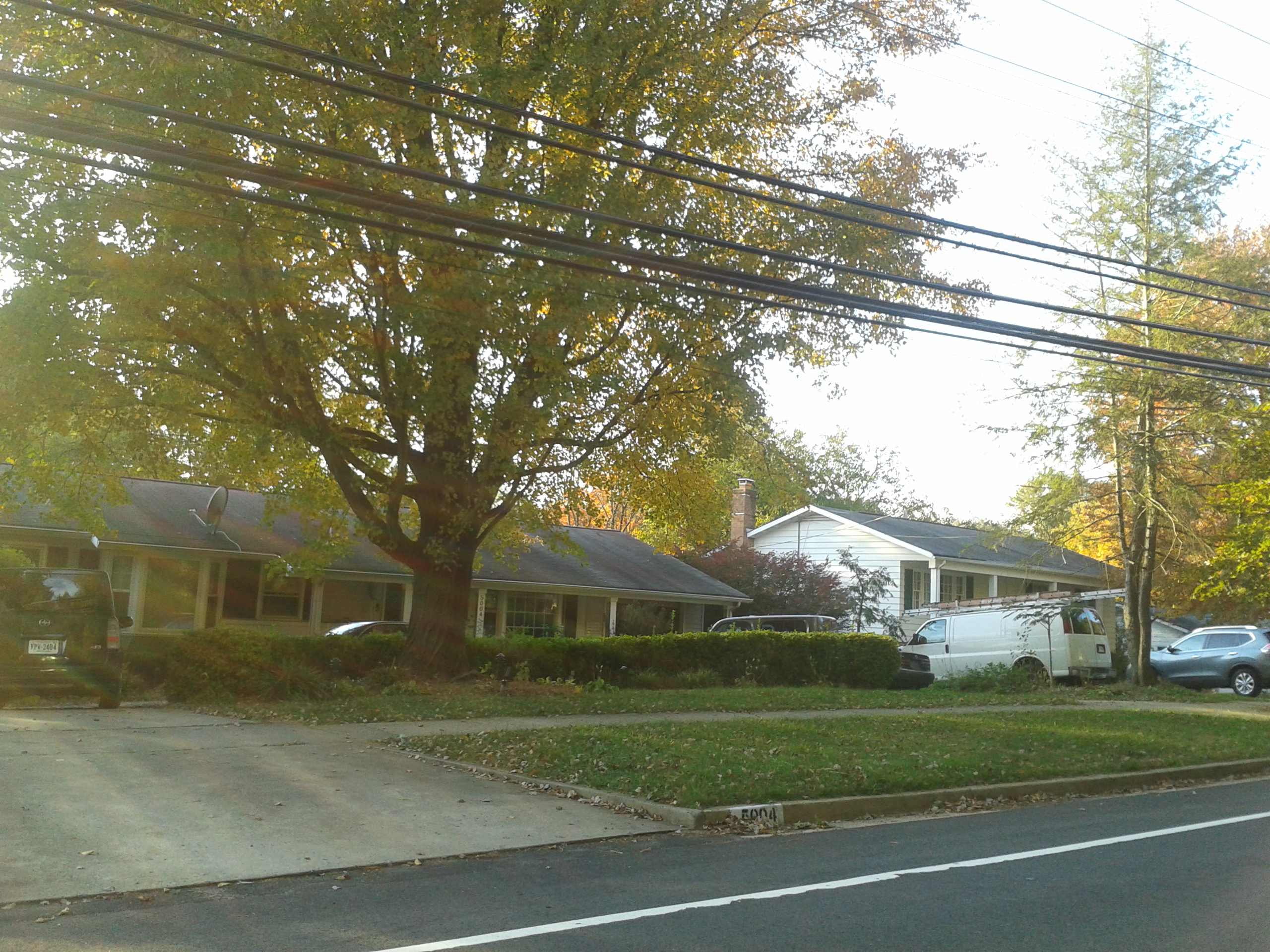 Wakefield, in Fairfax County Taken by me in October, 2016